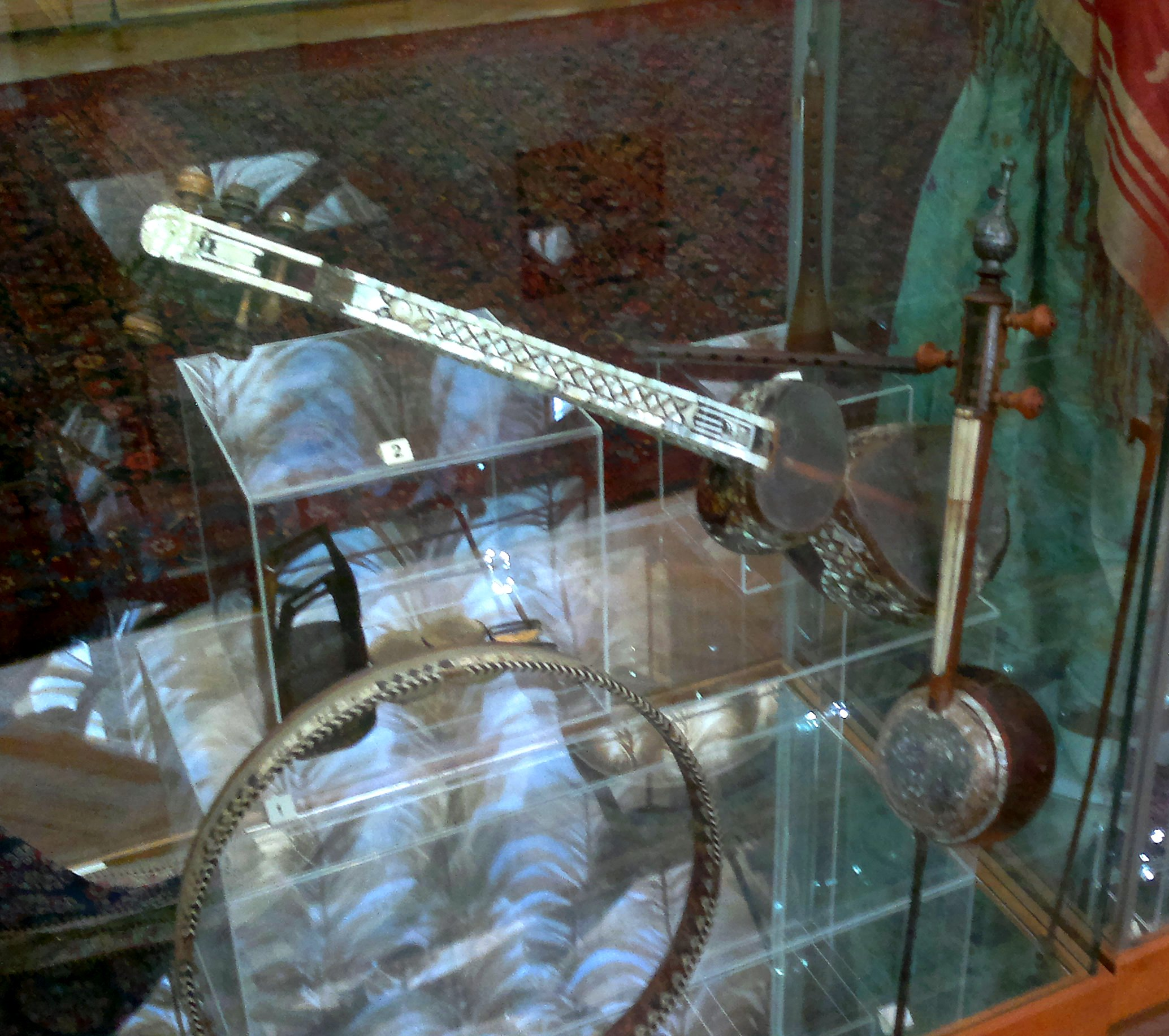 Musical instruments pertaining to Karabakh khanate: kamancha, tar, gaval, zurna and balaban. Museum of History of Azerbaijan, Baku